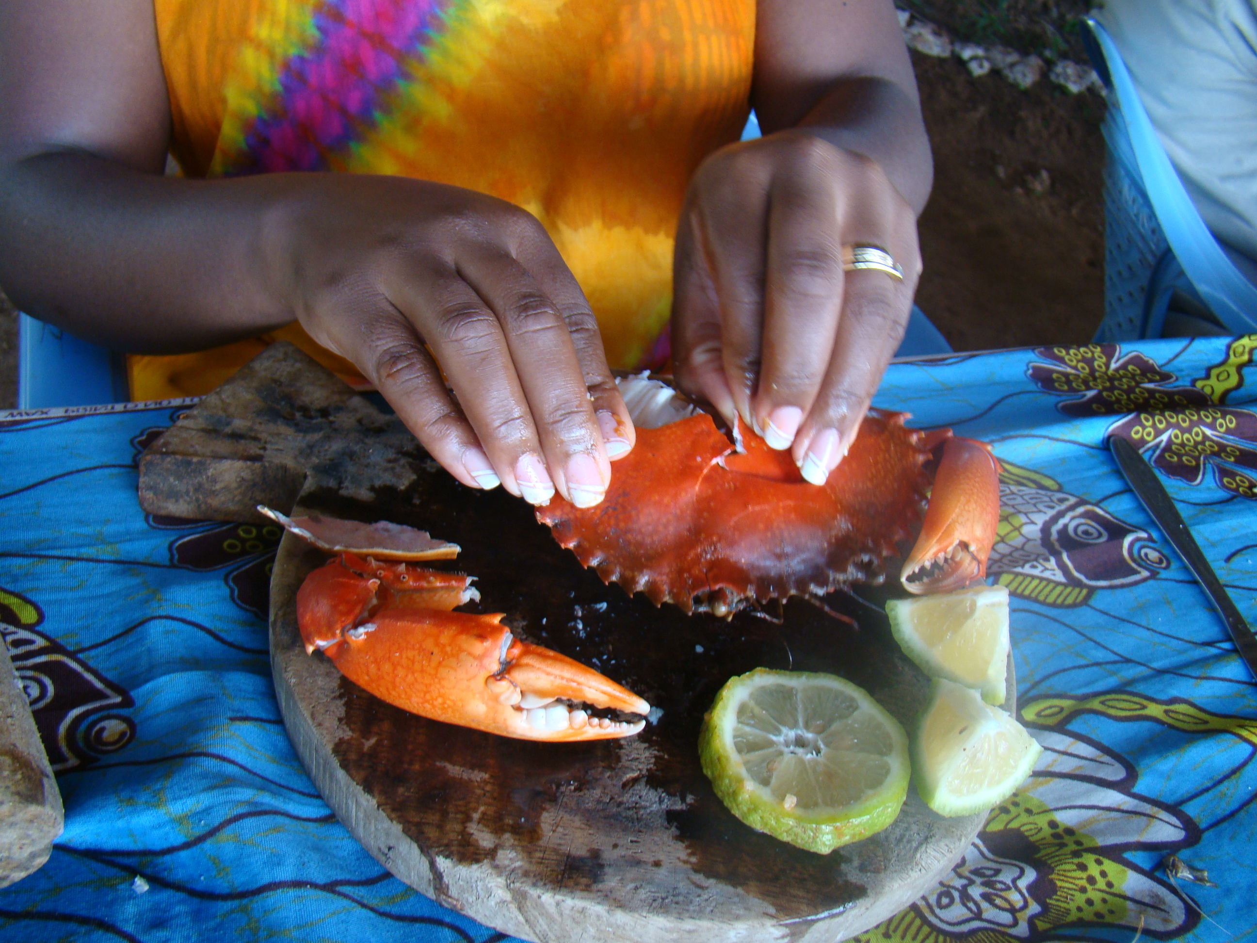 This is an image of food from Kenya